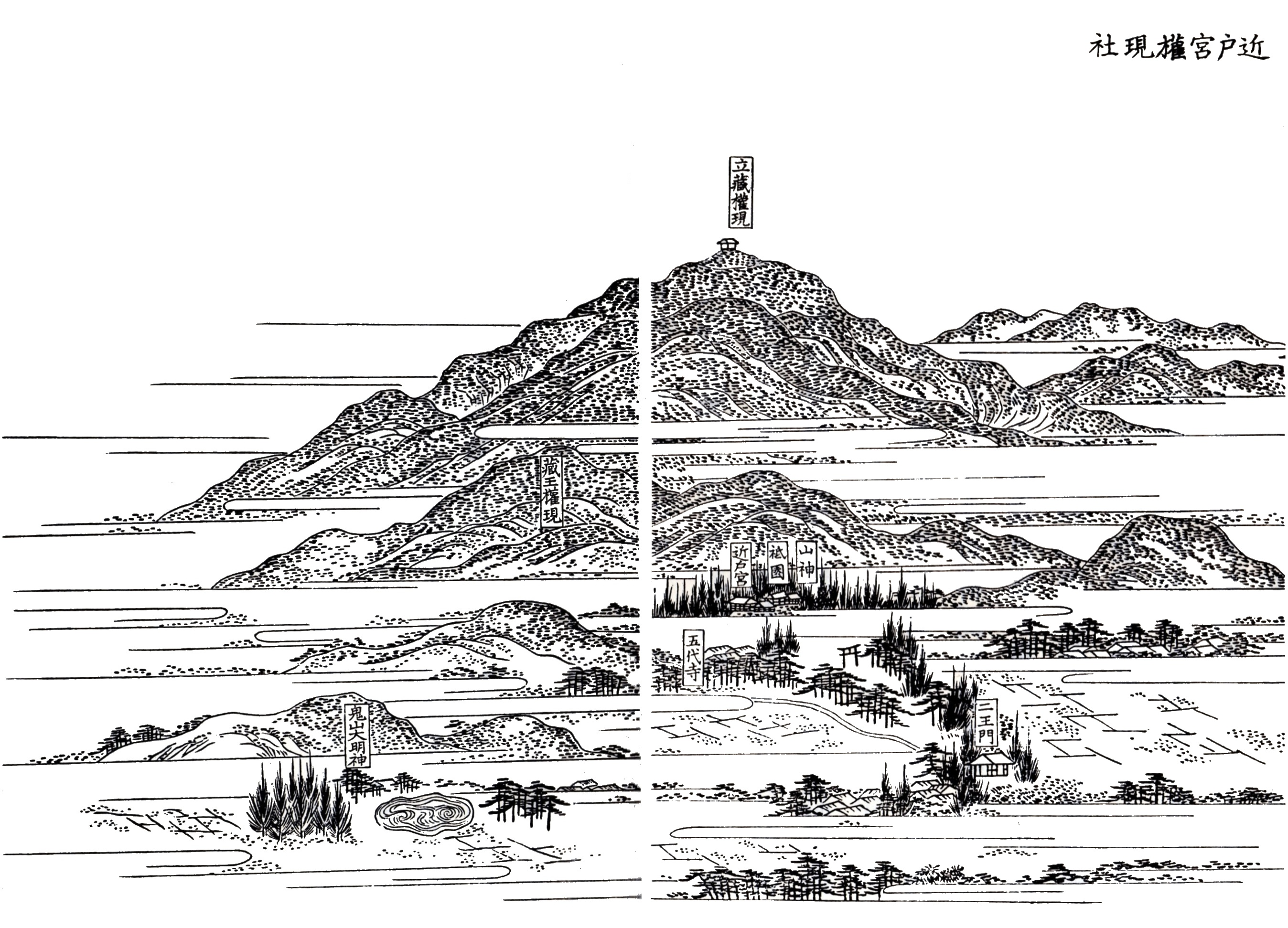 Setoyama Shrine in the 19th Century (Kamiharaigawa-cho, Kanoya City, Kagoshima, Japan)